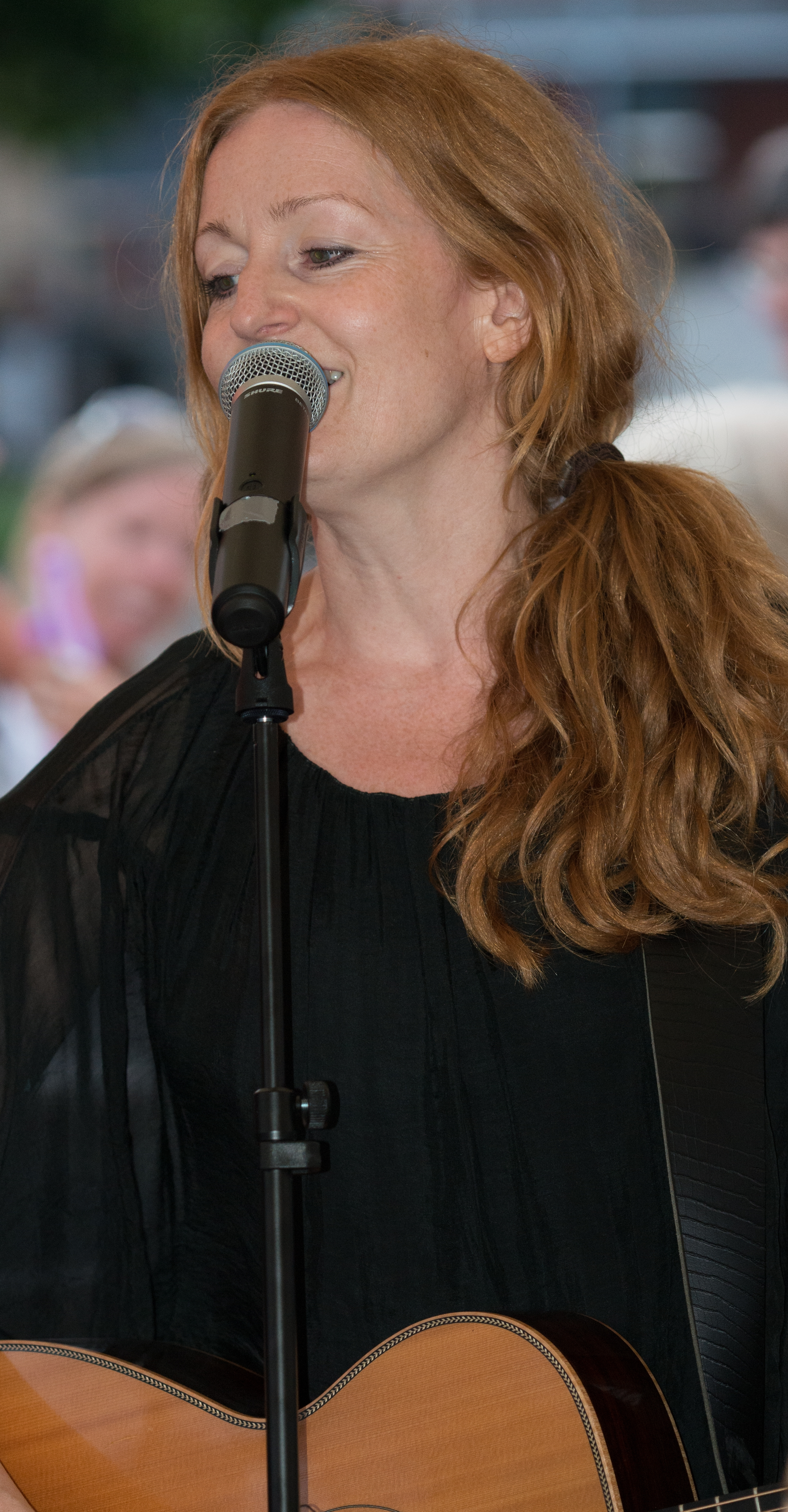 Anna Stadling July 2014